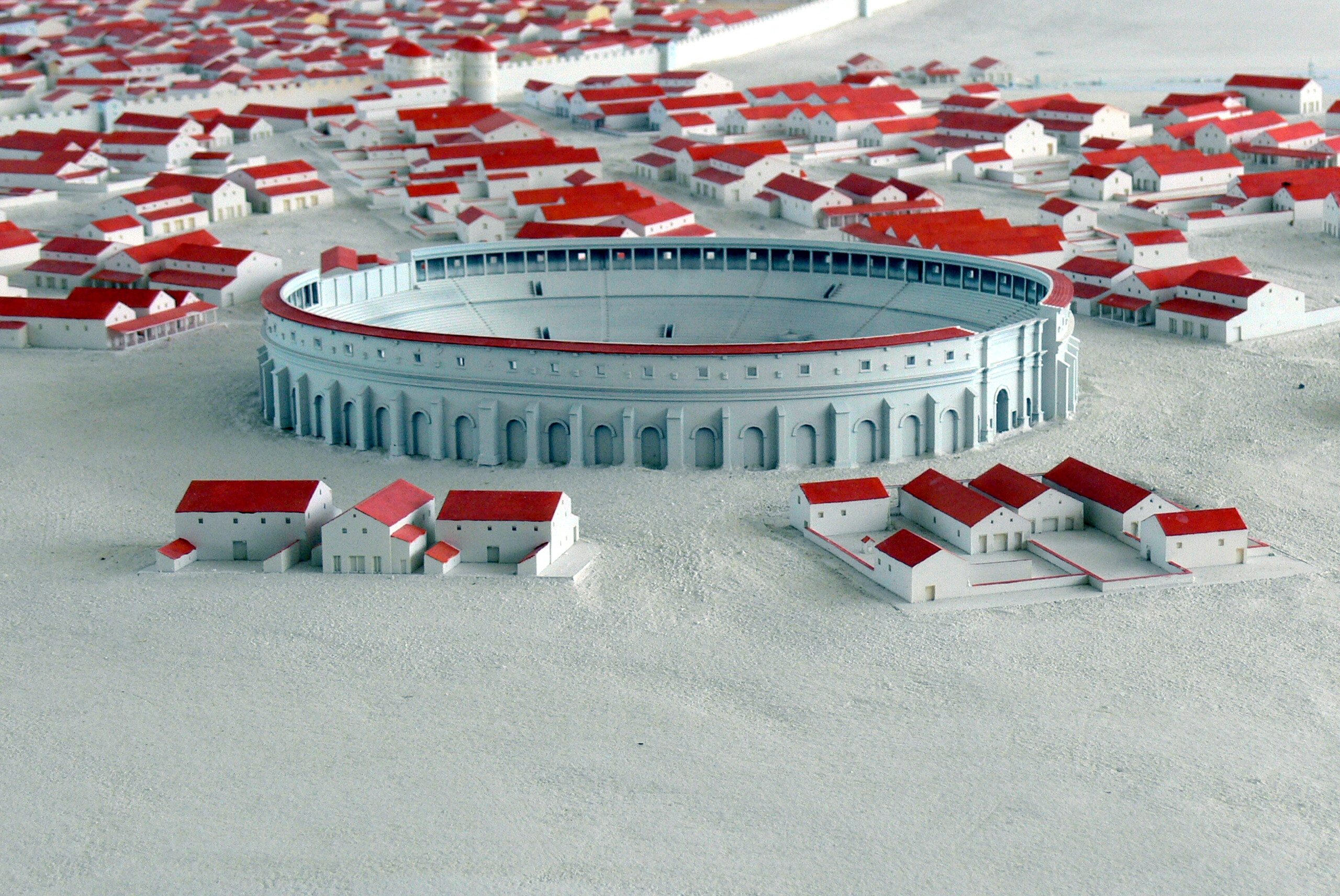 Petronell ( Lower Austria ).Open air museum: Model of Carnuntum ( 210 AD ) - Amphitheatre.